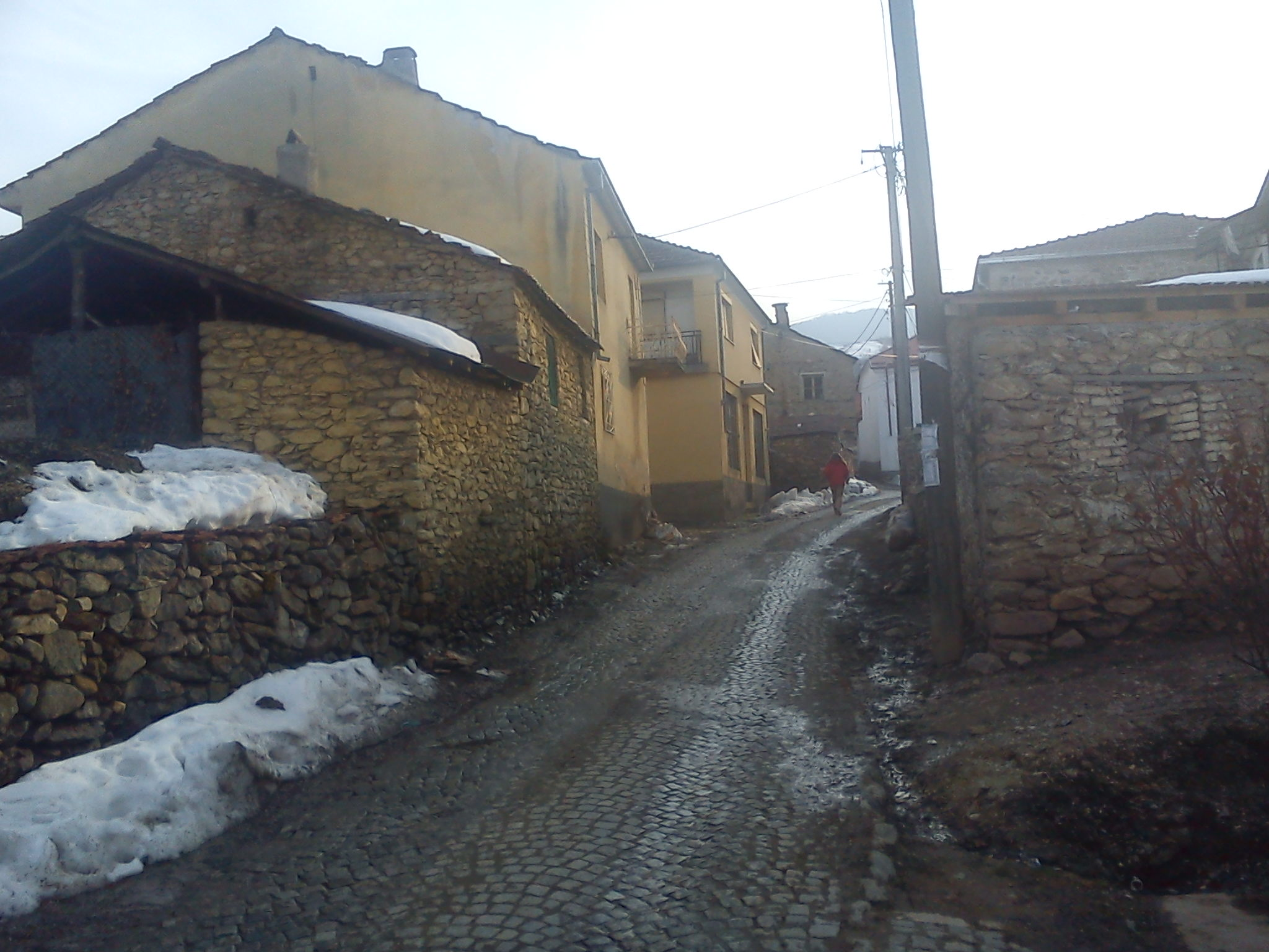 The main street of Bukovo, Macedonia